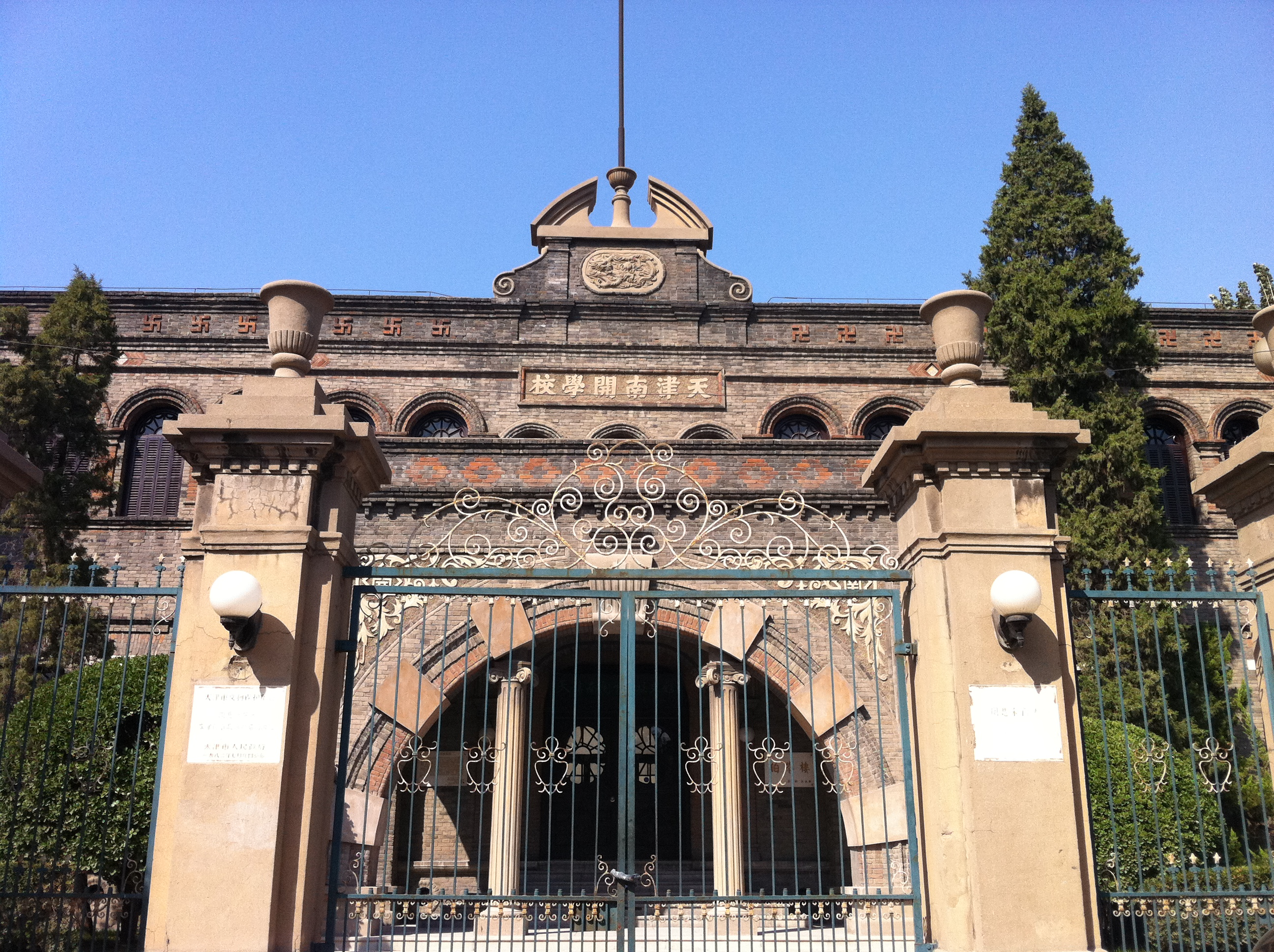 Former Nankai School, Sima Lu No. 20-22, Nankai District, Tianjin